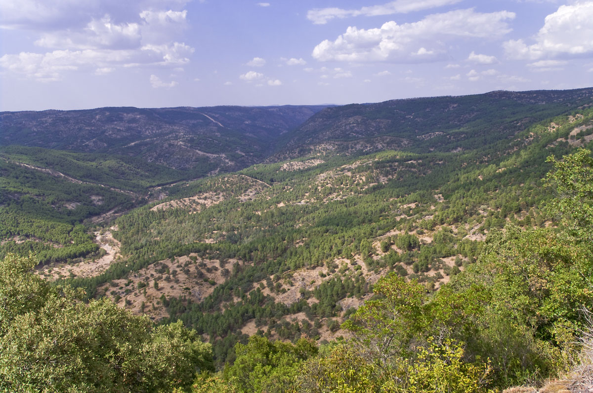 Río Arenoso (Cardeña)